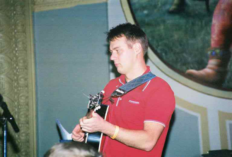 with Dub Narcotic Crystal Ballroom Portland, OR